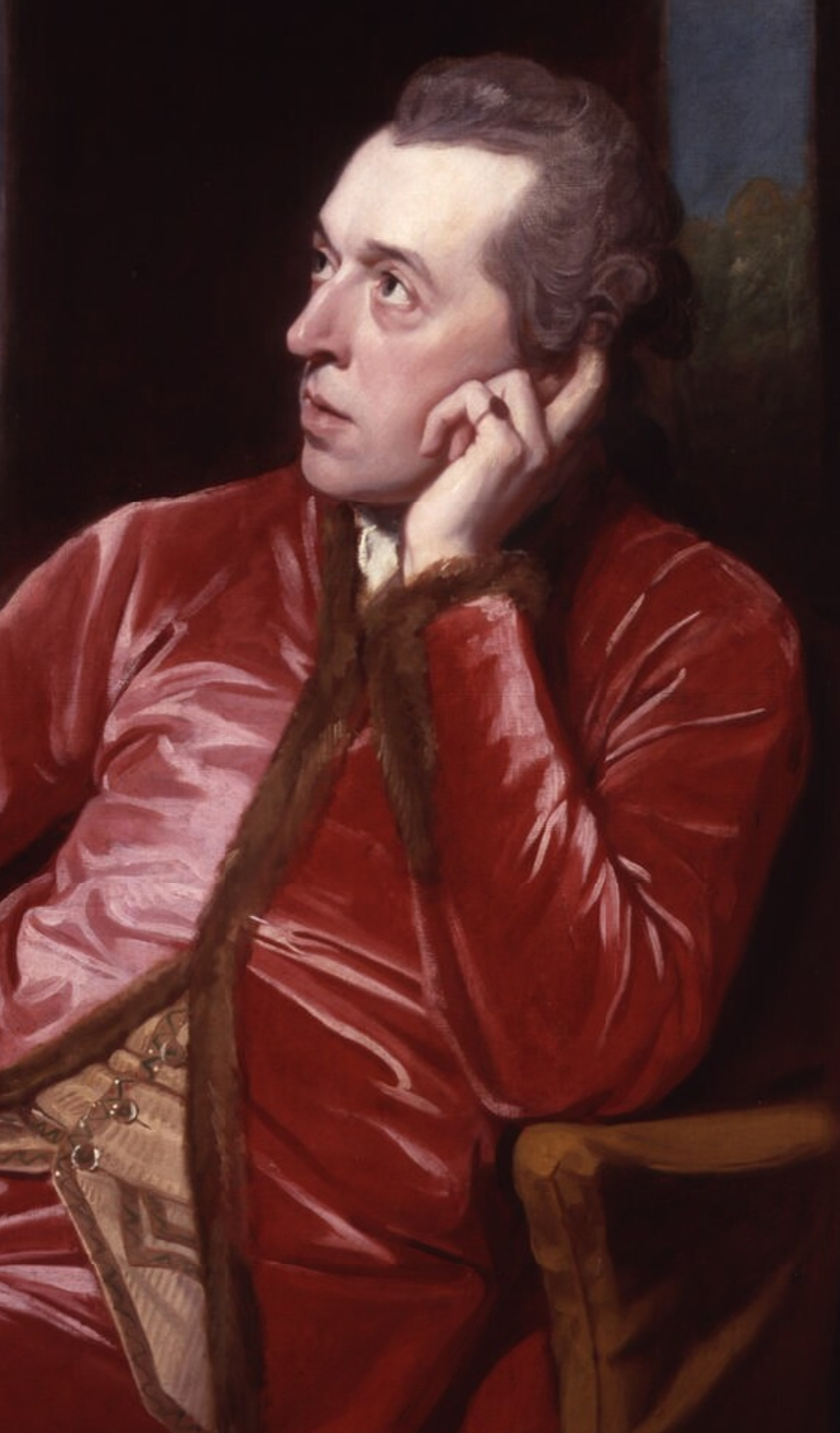 Richard Cumberland, detail of an oil painting by George Romney (National Portrait Gallery: NPG 19 While Commons policy accepts the use of this media, one or more third parties have made copyright claims against Wikimedia Commons in relation to the work from which this is sourced or a purely mechanical reproduction thereof. This may be due to recognition of the "sweat of the brow" doctrine, allowing works to be eligible for protection through skill and labour, and not purely by originality as is the case in the United States (where this website is hosted). These claims may or may not be valid in all jurisdictions. As such, use of this image in the jurisdiction of the claimant or other countries may be regarded as copyright infringement. Please see Commons:When to use the PD-Art tag for more information.See User:Dcoetzee/NPG legal threat for original threat and National Portrait Gallery and Wikimedia Foundation copyright dispute for more information. This tag does not indicate the copyright status of the attached work. A normal copyright tag is still required. See Commons:Licensing. )